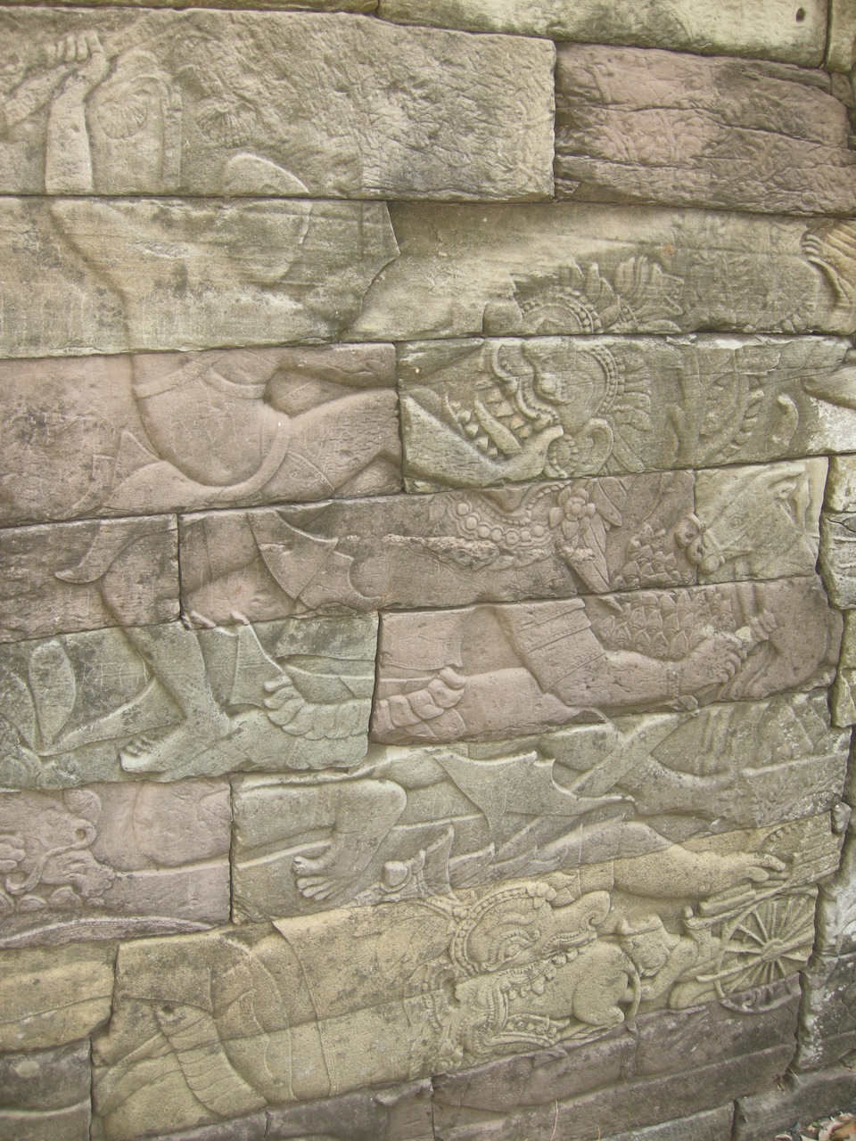 West wall of Banteay Chmar's third enclosure. Prince fights a demon/enemy.